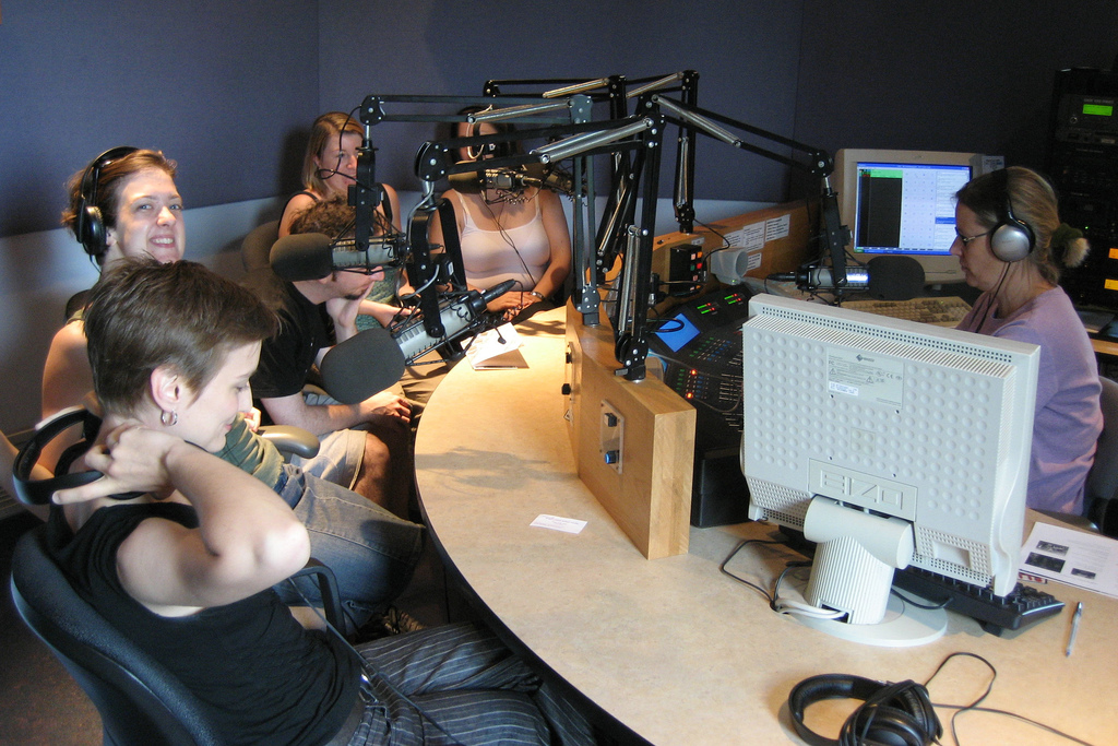 Belfast Poets Touring Group and Jill Anna Ponasik (foreground) at Minnesota Fringe on "Art Matters" at KFAI radio, Cedar-Riverside, Minneapolis